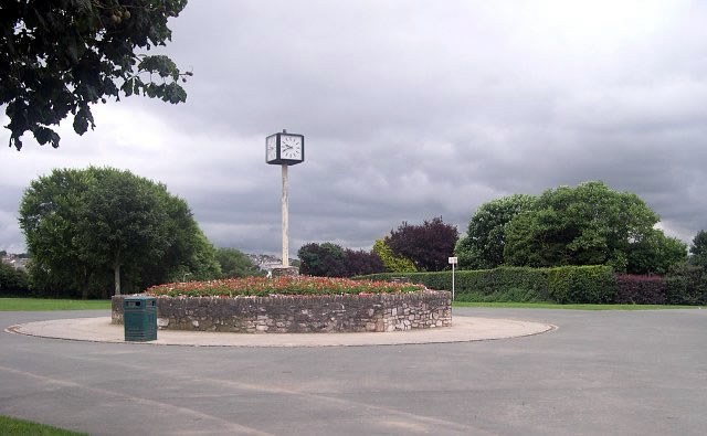 Floral Clock, Central Park, Plymouth